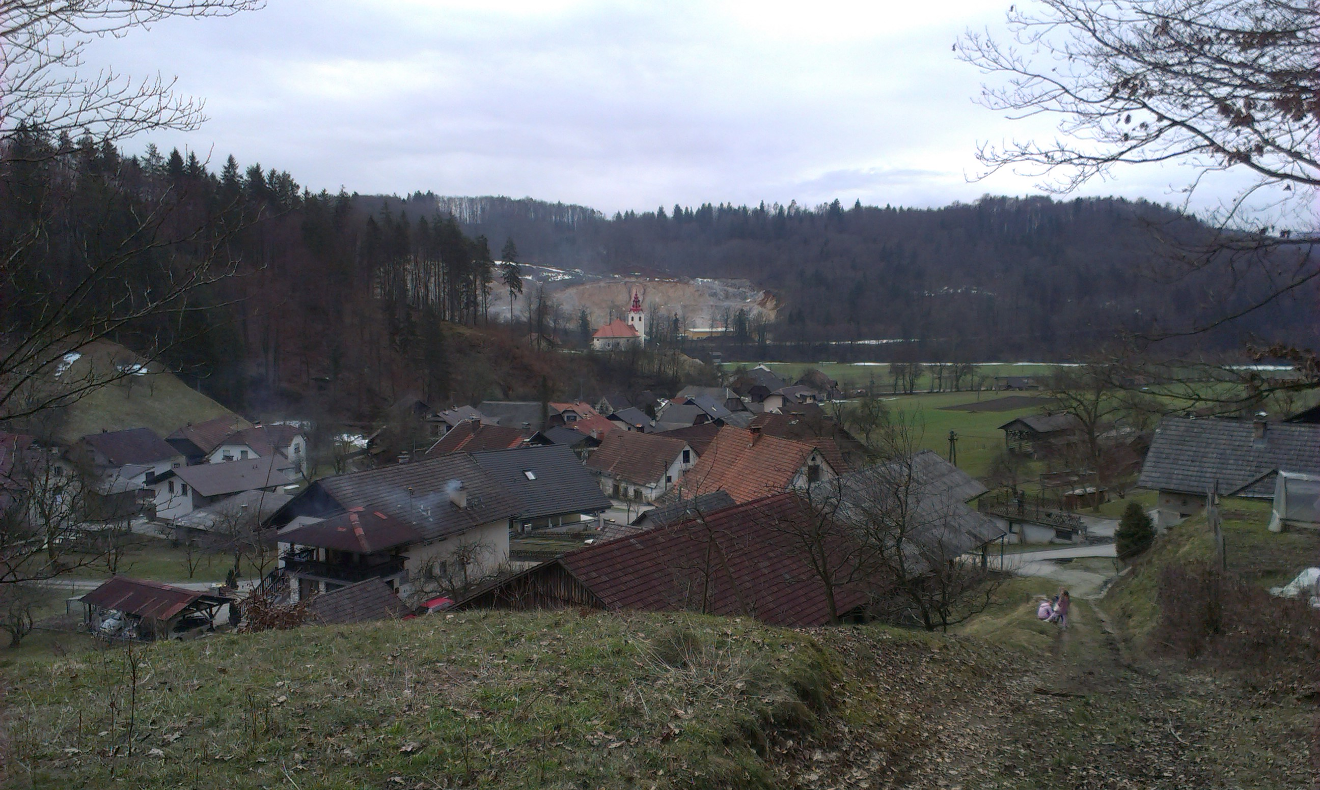 Village of Zgornja Jablanica with church of Saint Anne